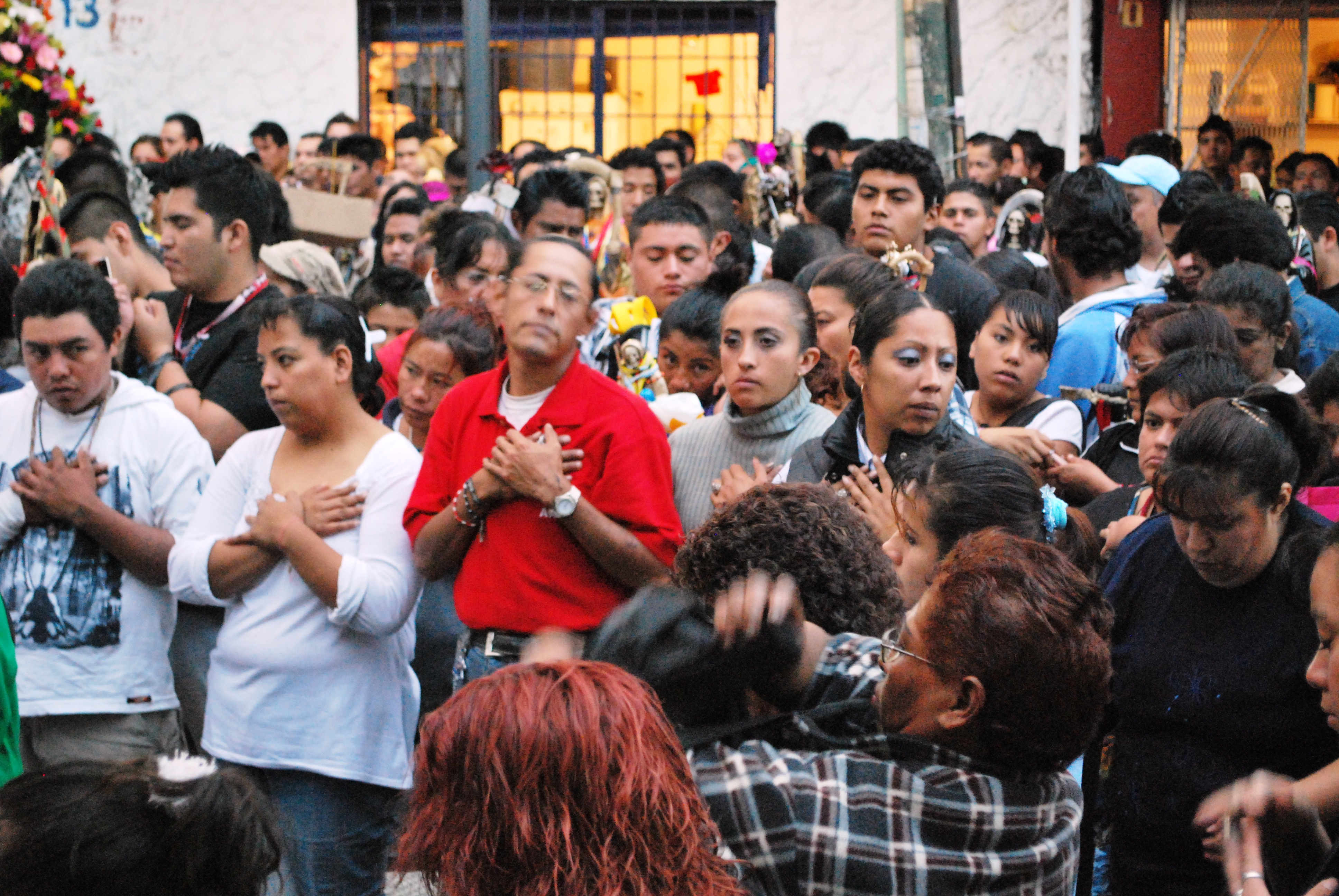 People praying during a service to Santa Muerte on Alfareria Street Tepito Mexico City